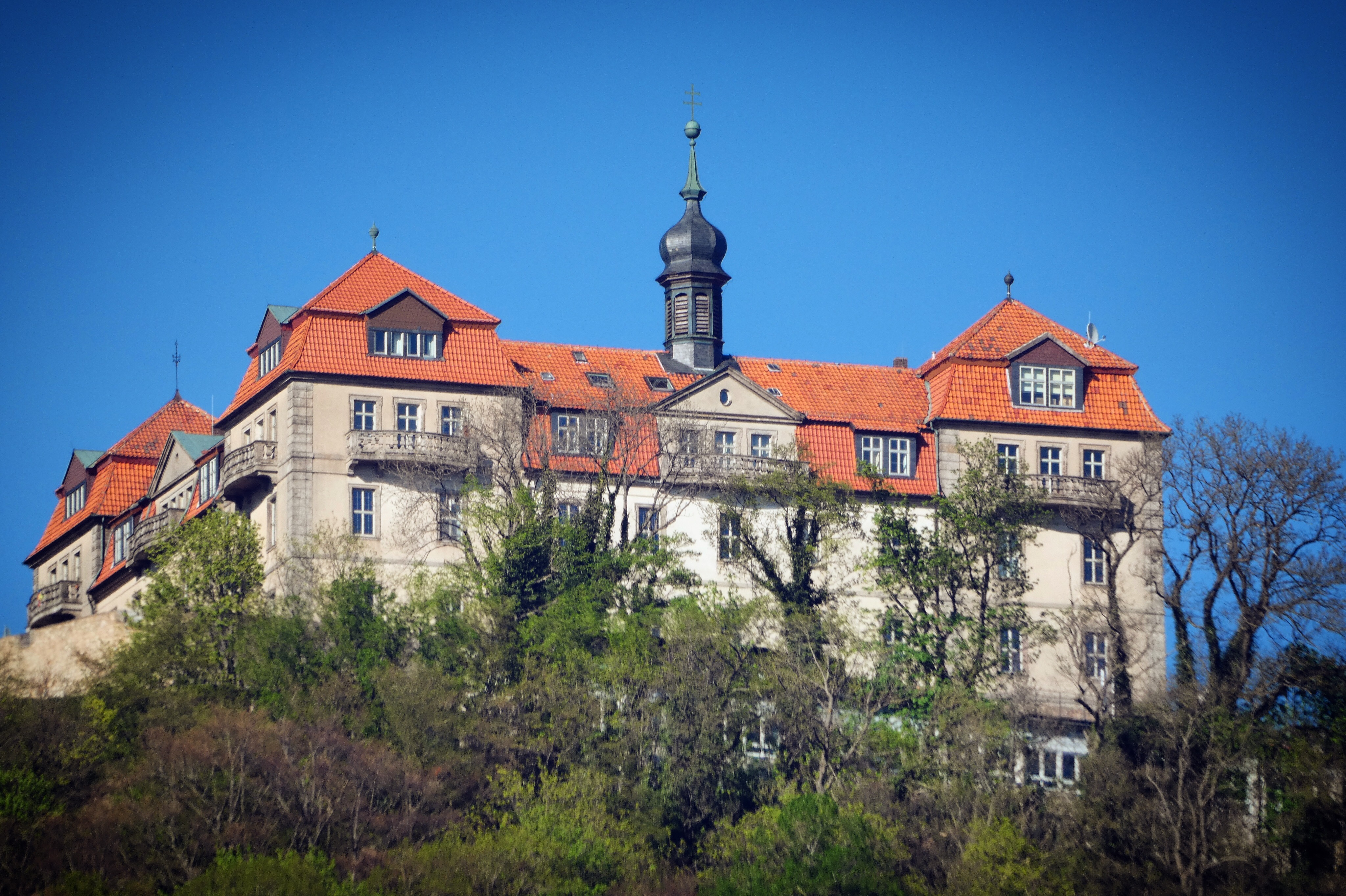 Schloss Bieberstein is a castle near Fulda in Hesse in Germany.